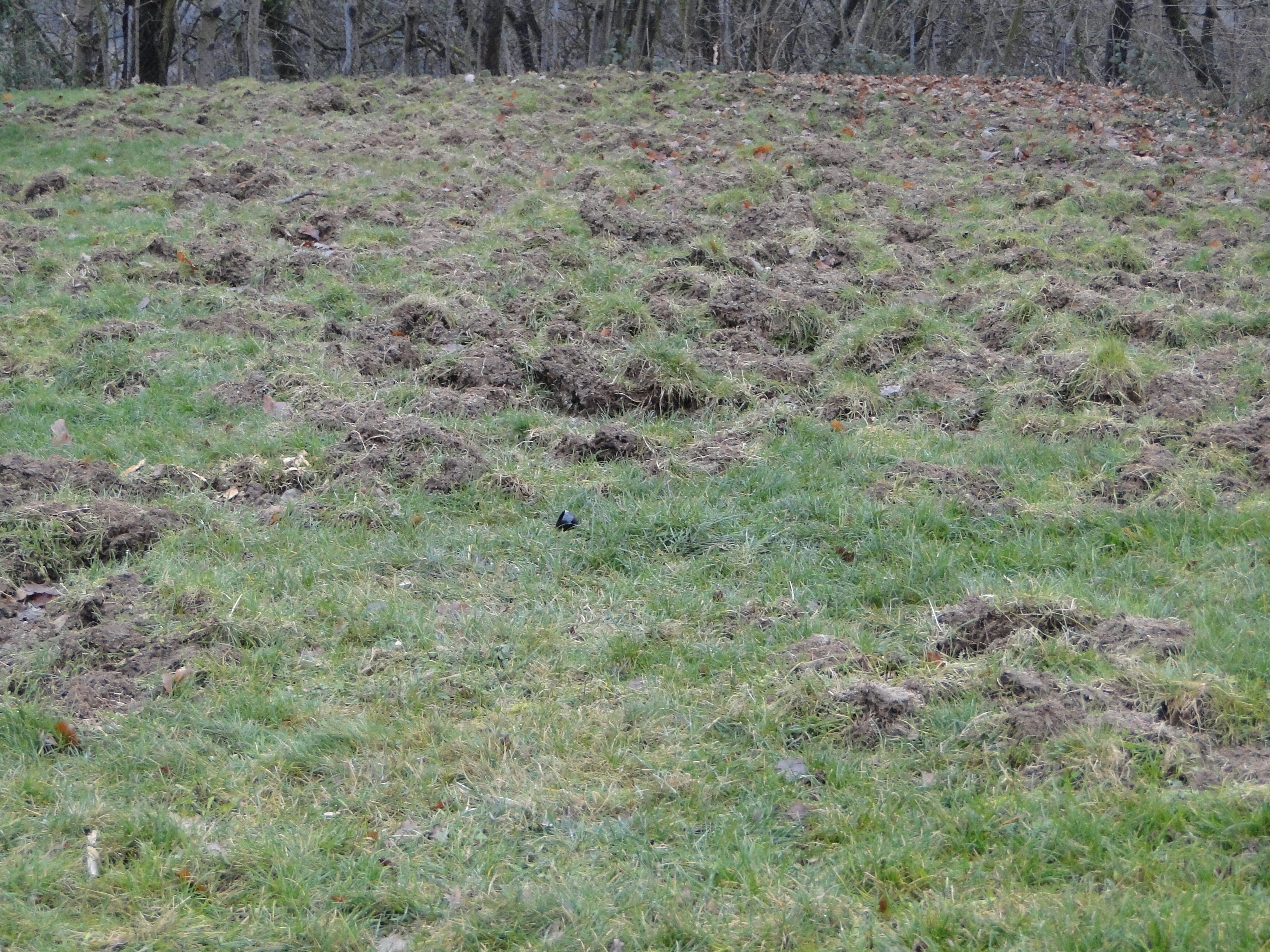 Crop demage of a wild boar sounder.